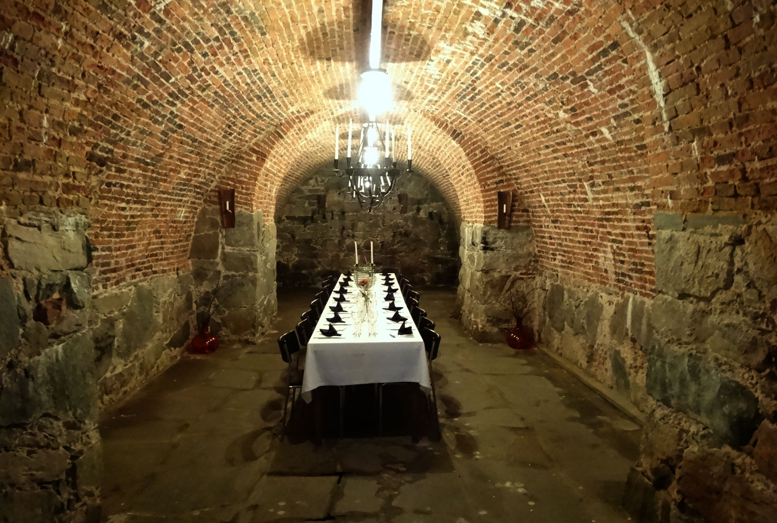 A place for dinner at fort Nya Älvsborg, Sweden. The vaults in curtain wall 3 can accomodate 25-40 persons.